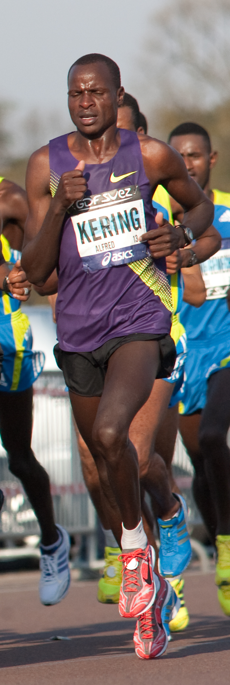 Alfred Kering at Paris marathon. April 2010